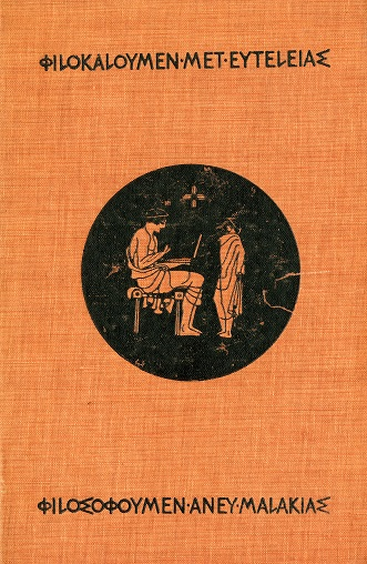 Cover of cloth edition of Kenneth J. Freeman's Schools of Hellas; An Essay on the Practice and Theory of Ancient Greek Education from 600 to 300 B. C. (London-New York-Toronto: Macmillan & Co., 2nd edn. 1912). Quote from Thucydides' Funeral Oration of Pericles: "We cultivate refinement without extravagance and knowledge without effeminacy" (in Ancient Greek).